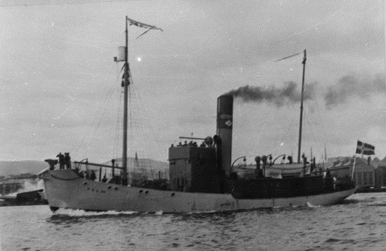 Polaris' whale catcher Pol III (1926)